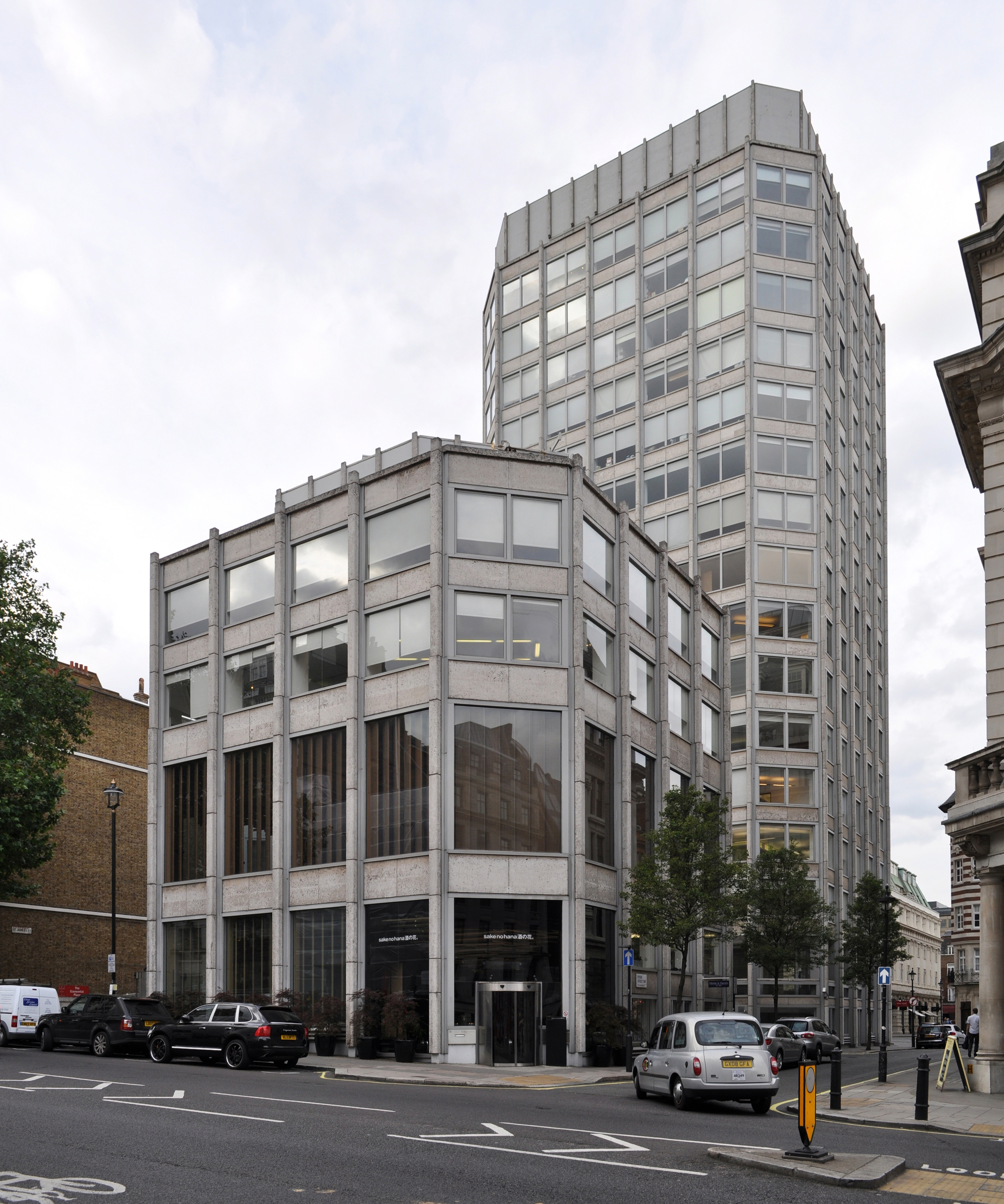 the economist building, london 1959-1964. architects: peter and alison smithson (1923-2003 & 1928-1993). the bank building in front of the economist tower as seen from st. james' street. took me a while to realize the fire wall on the left is also by the smithsons, I have to admit.